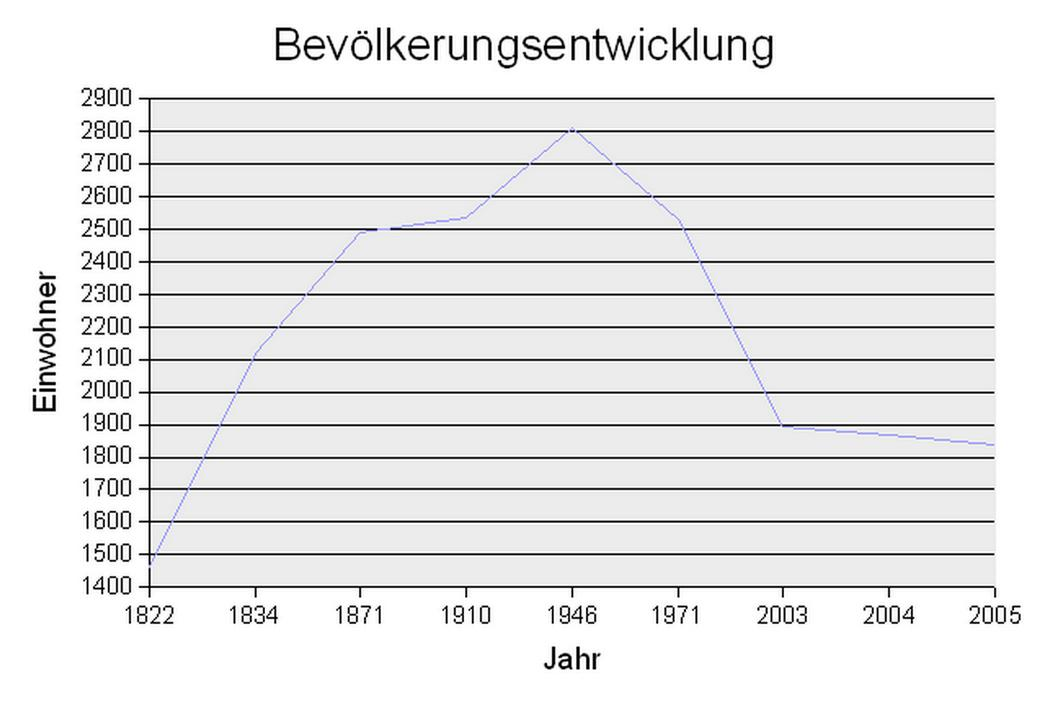 Rittersgrün vital statistics